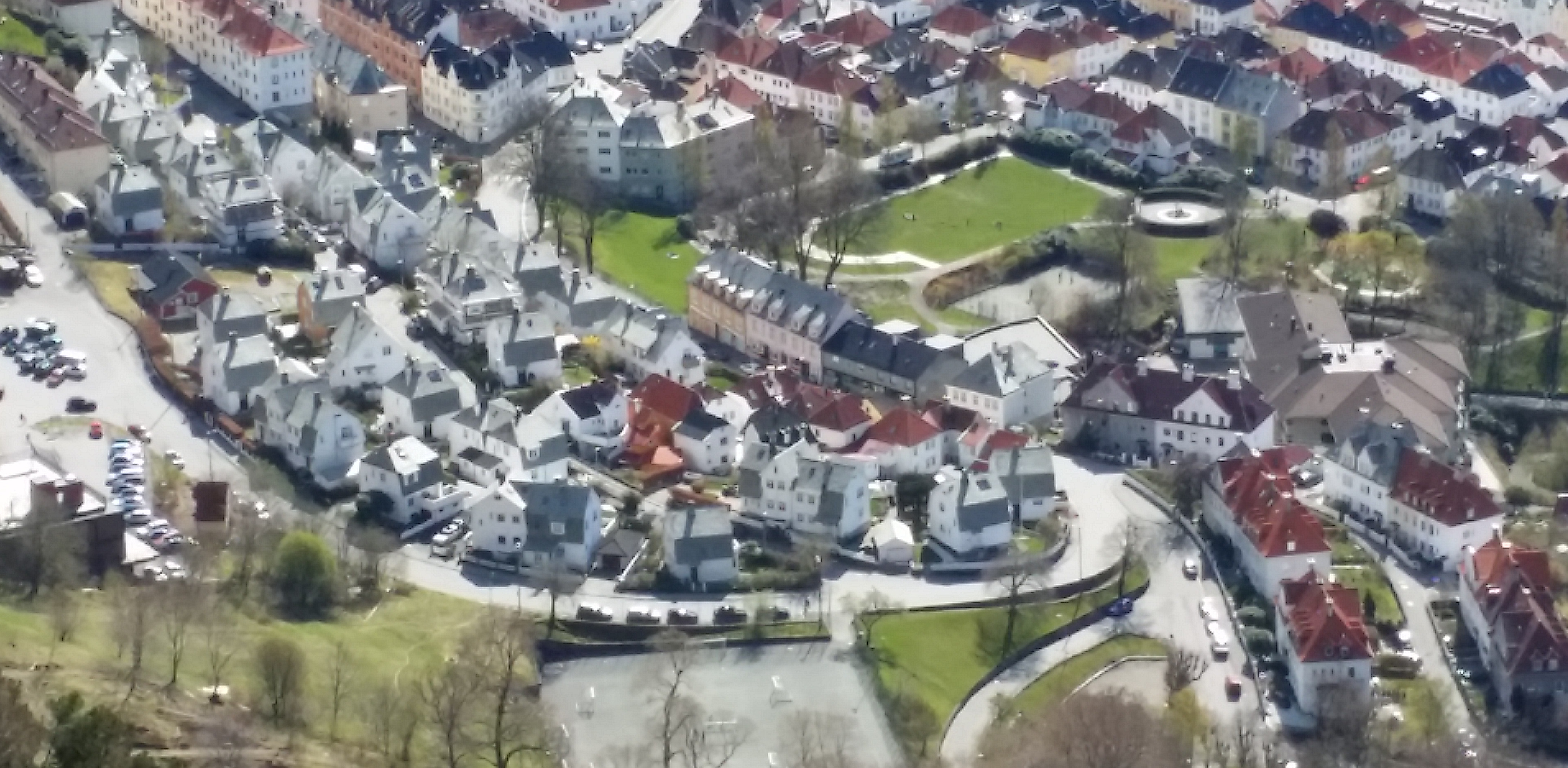 The Mulen neighbourhood in Bergen, Norway